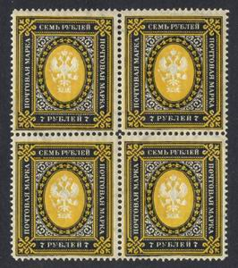 Postage stamp block, Russian Empire, definitive issue, 1902, 7 rubles